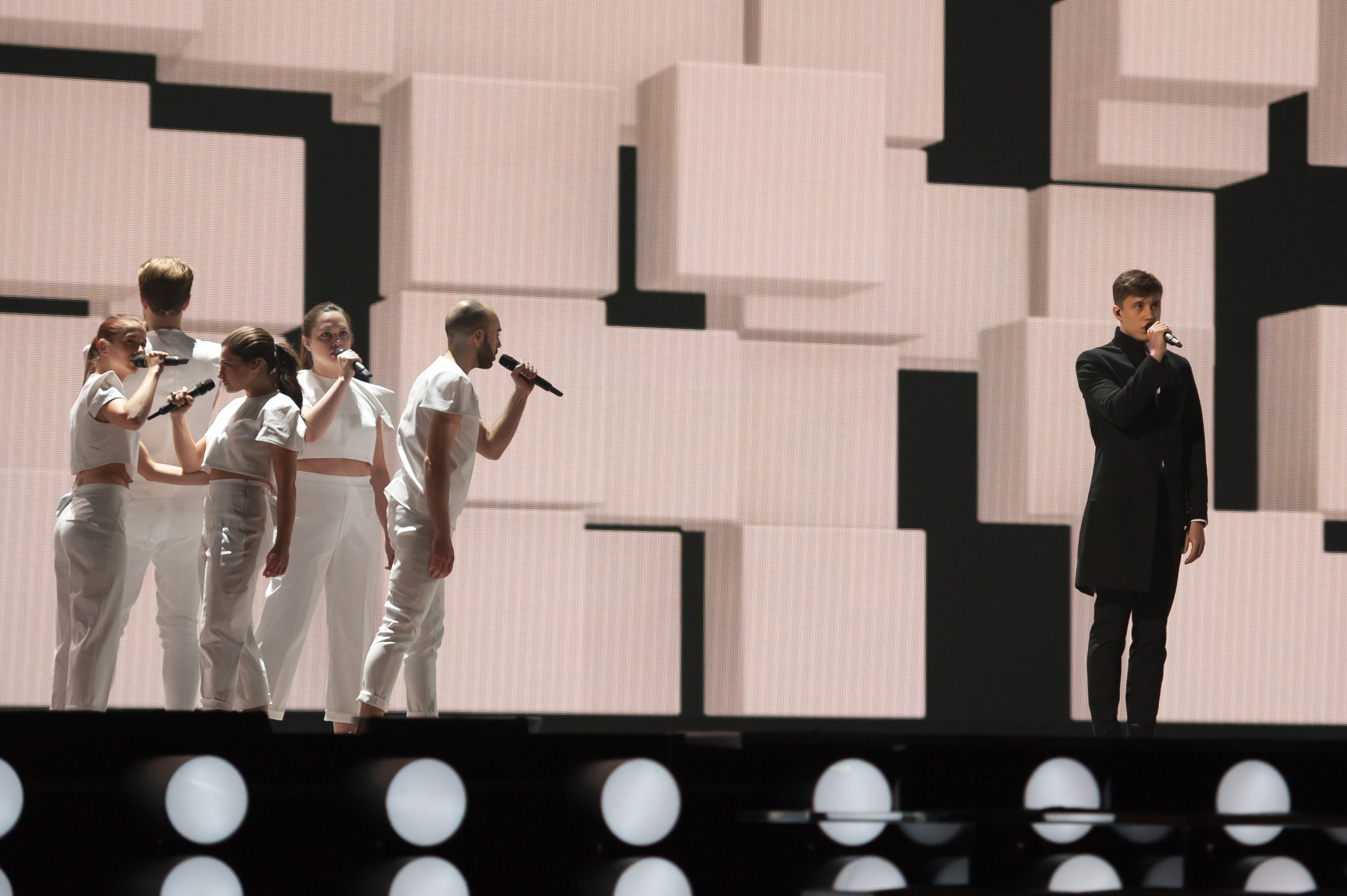 Eurovision Song Contest Vienna 2015: Loïc Nottet